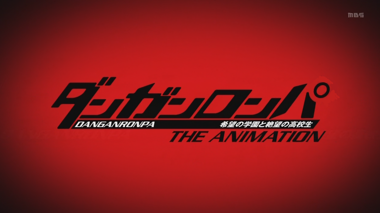 Danganronpa: The Animation logo